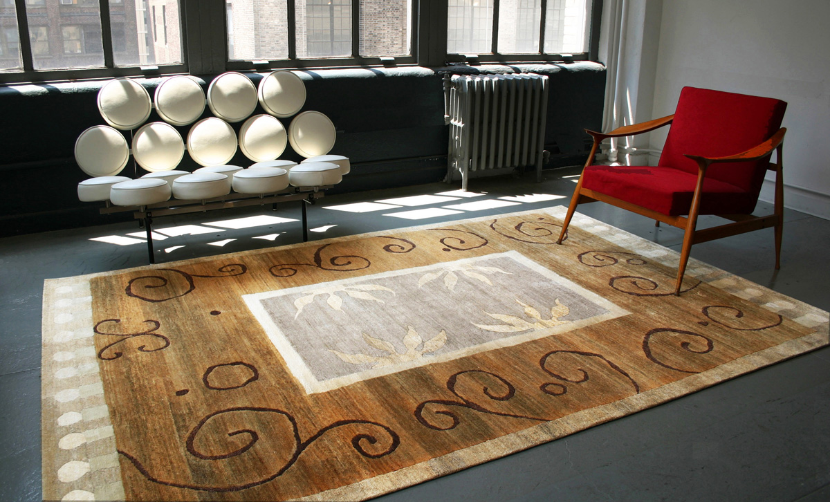 Carpet Design Havana in Cactus and Silk by David Shaw Nicholls